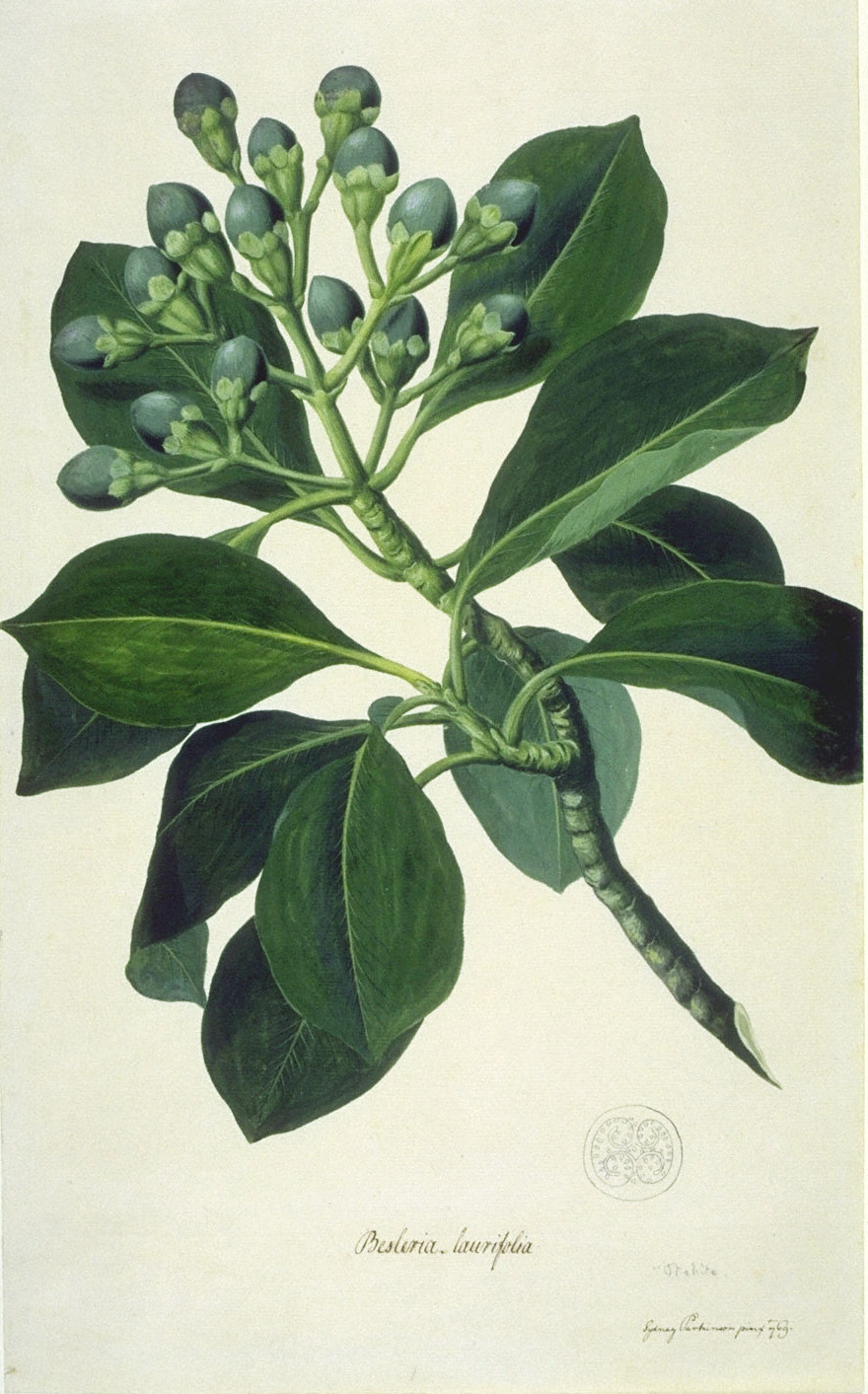 Fagraea berteriana, perfume flower tree, Finished watercolour by Sydney Parkinson made during Captain James Cook's first voyage across the Pacific, 1768-1771